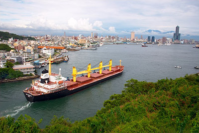 Information: Kaohsiung Harbor/ Canon EOS 300D/ EF18-55mm lens/ ISO 100-200/ taken by DDM Xiao/ 16 September, 2004 Information in